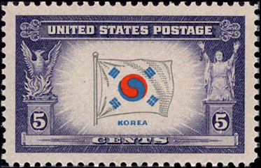 United States postage stamp (released in November 1944) from the "Overrun Countries series", showing the pre-1905 flag of Korea (similar to the modern flag of South Korea).